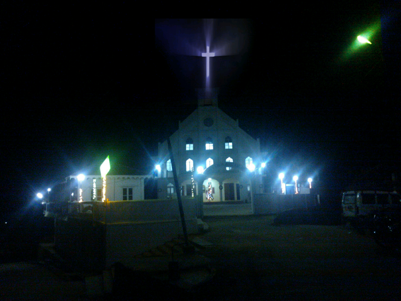 Phullen Presbyterian Kohhran